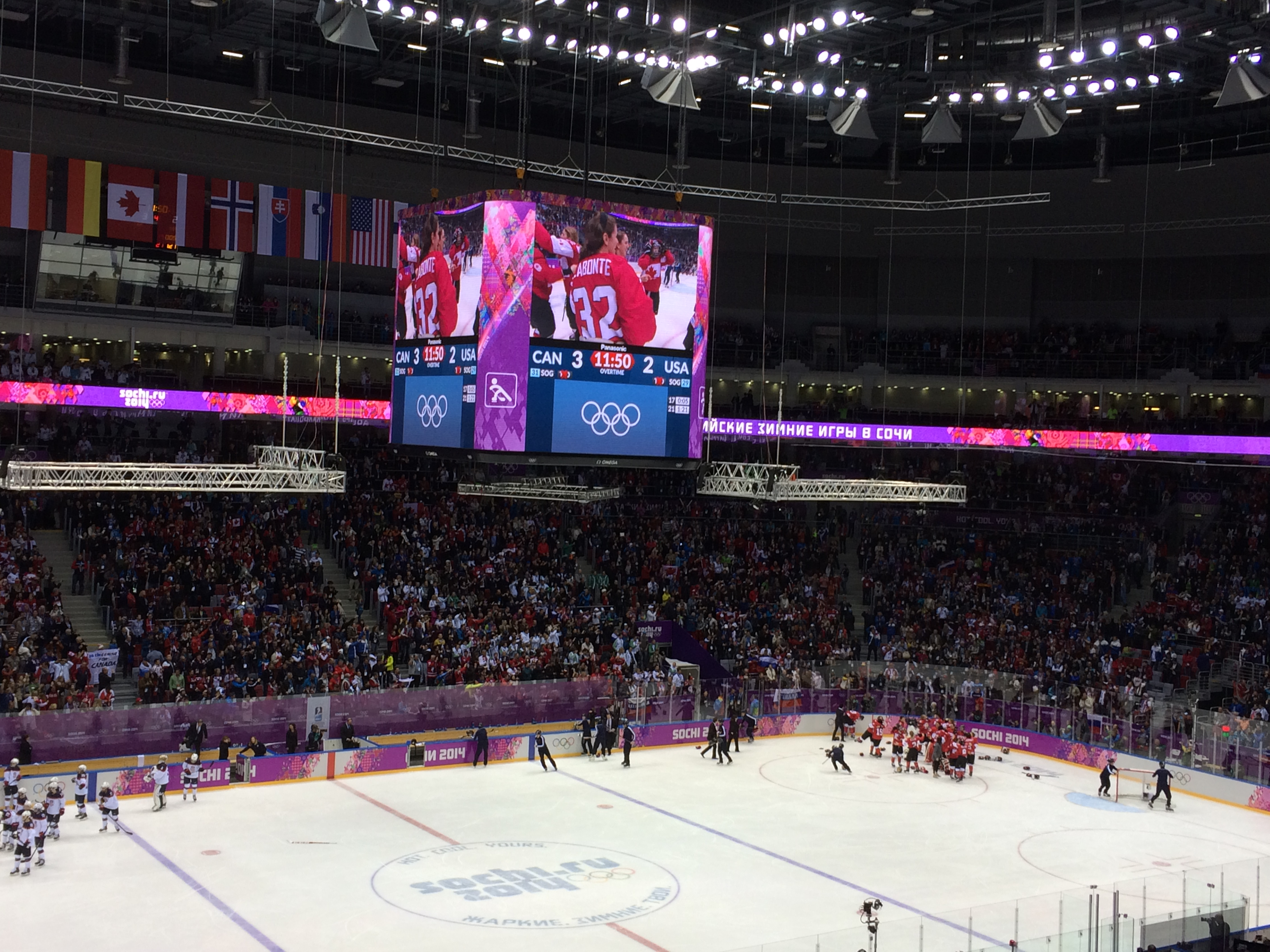 USA-CAN Womens' Hockey (4)